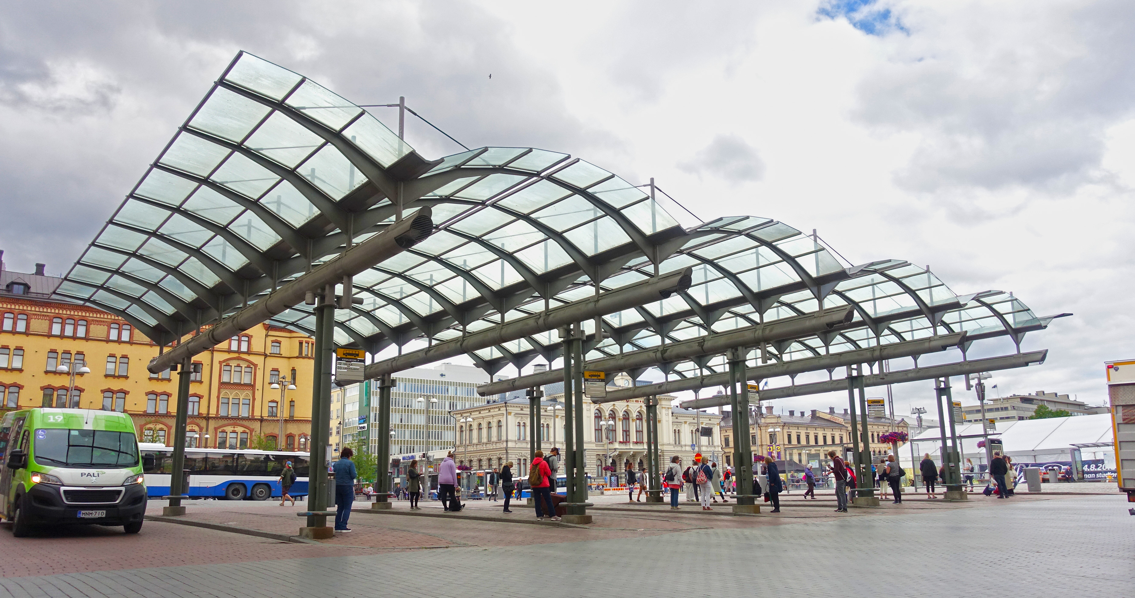 Bus terminal Keskustori, Tampere, Finland.